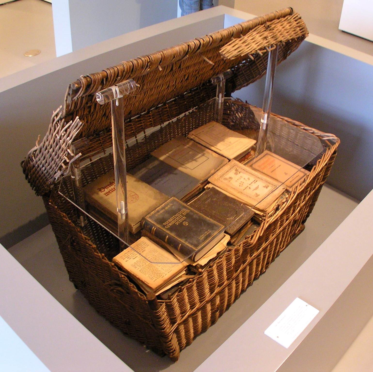 A box with about 150 jewish books which were hidden in 1942 and lay 47 years undiscovered on the attic of a house in Bottrop. Part of the exhibition in the Jewish Museum Westphalia, Dorsten, Germany